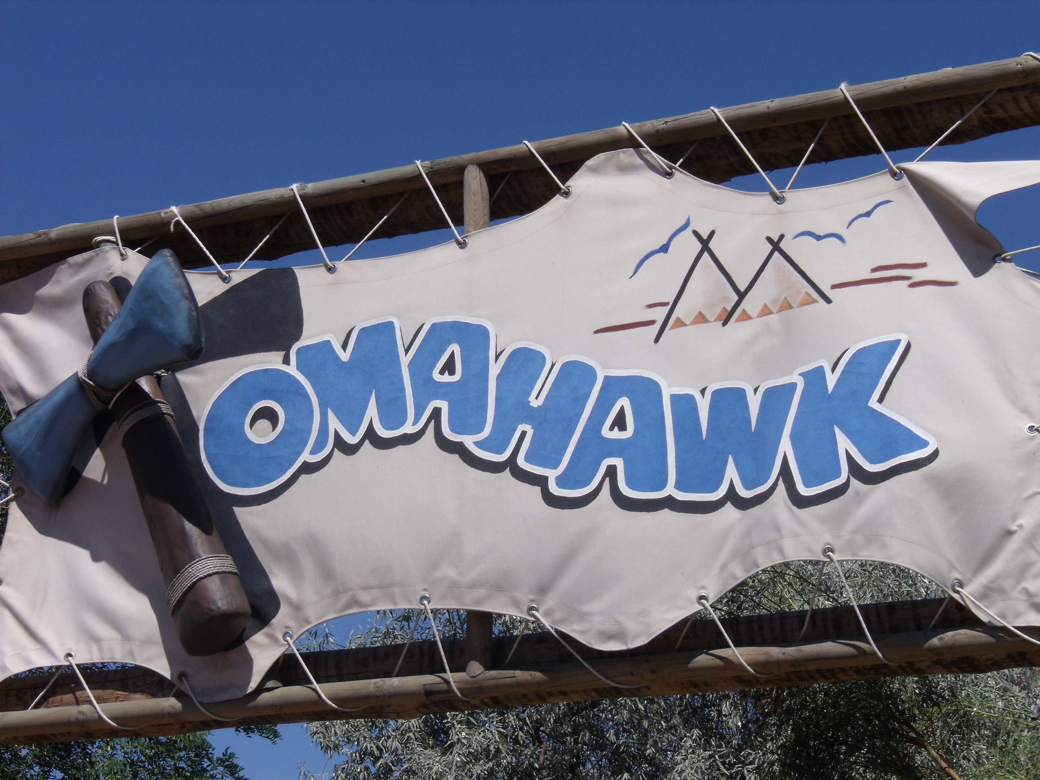 Tomahawk